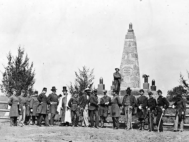 Dedication of the battle monument at Mrs. Henry's House on the Manassas (Bull Run) battlefield.